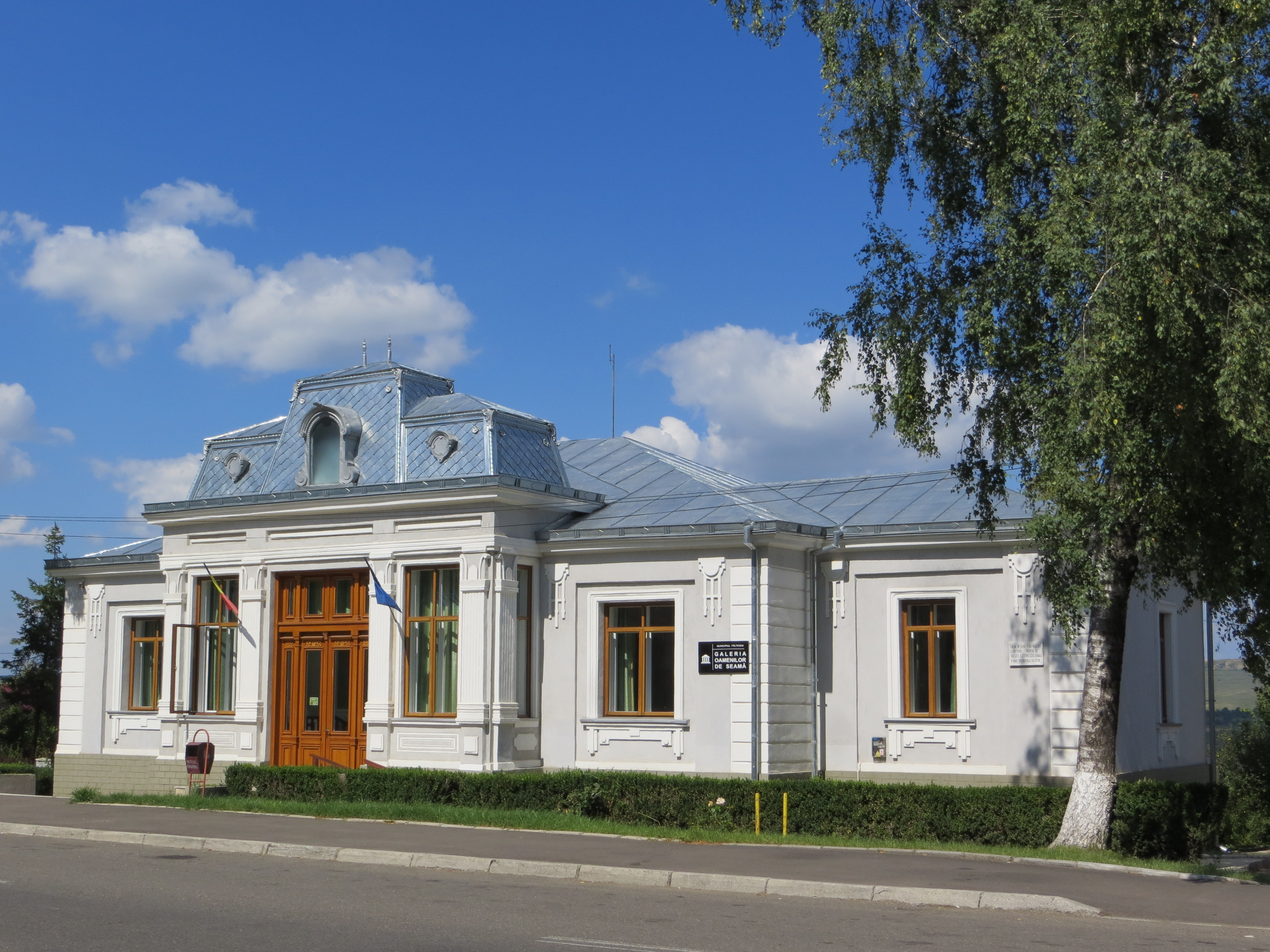 House of Notable People, Fălticeni, Suceava County, Romania.